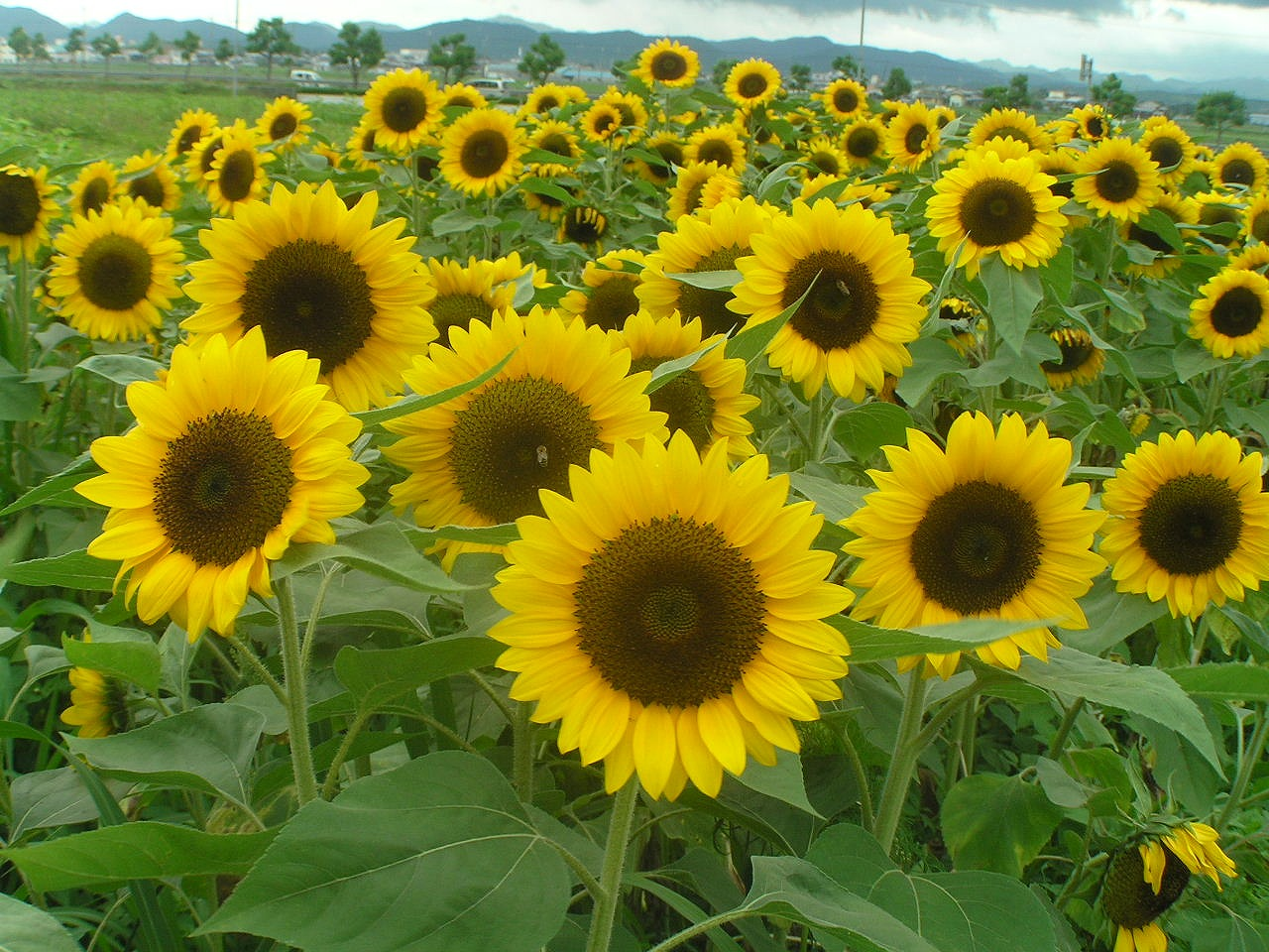 ono-himawarino-oka-park 6226180